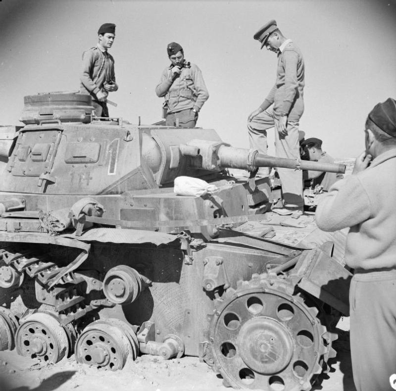 The British Army in North Africa 1942 Officers examine a knocked-out PzKpfw III tank, 20 April 1942.